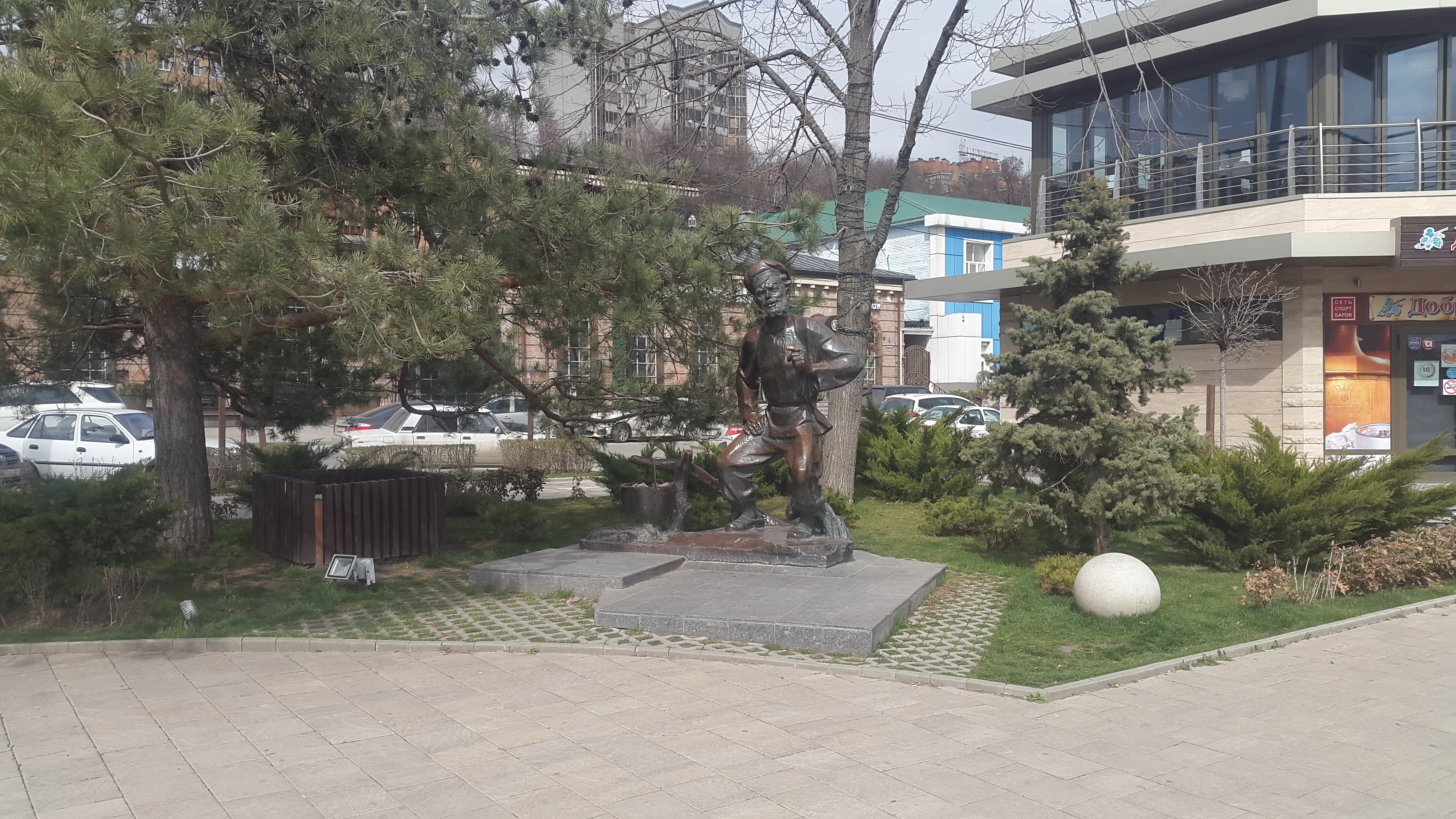 Ded Schukar. Riverside Rostov-on-Don.